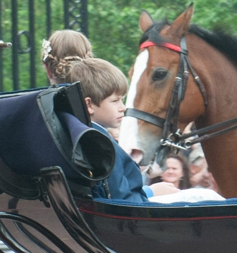 James, Viscount Severn 2016